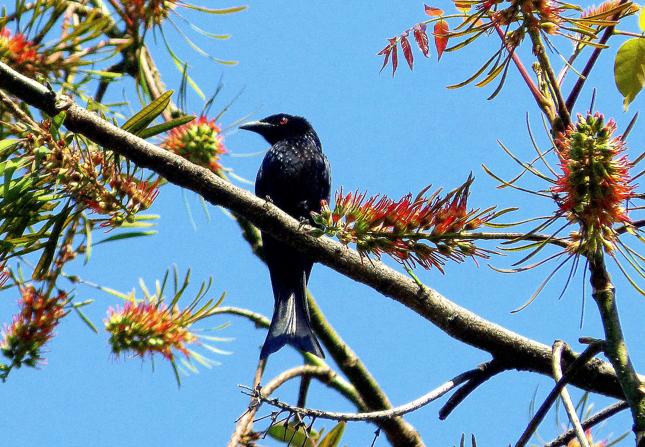 Mt. Coot-tha Botanic Garden. Brisbane. QLD